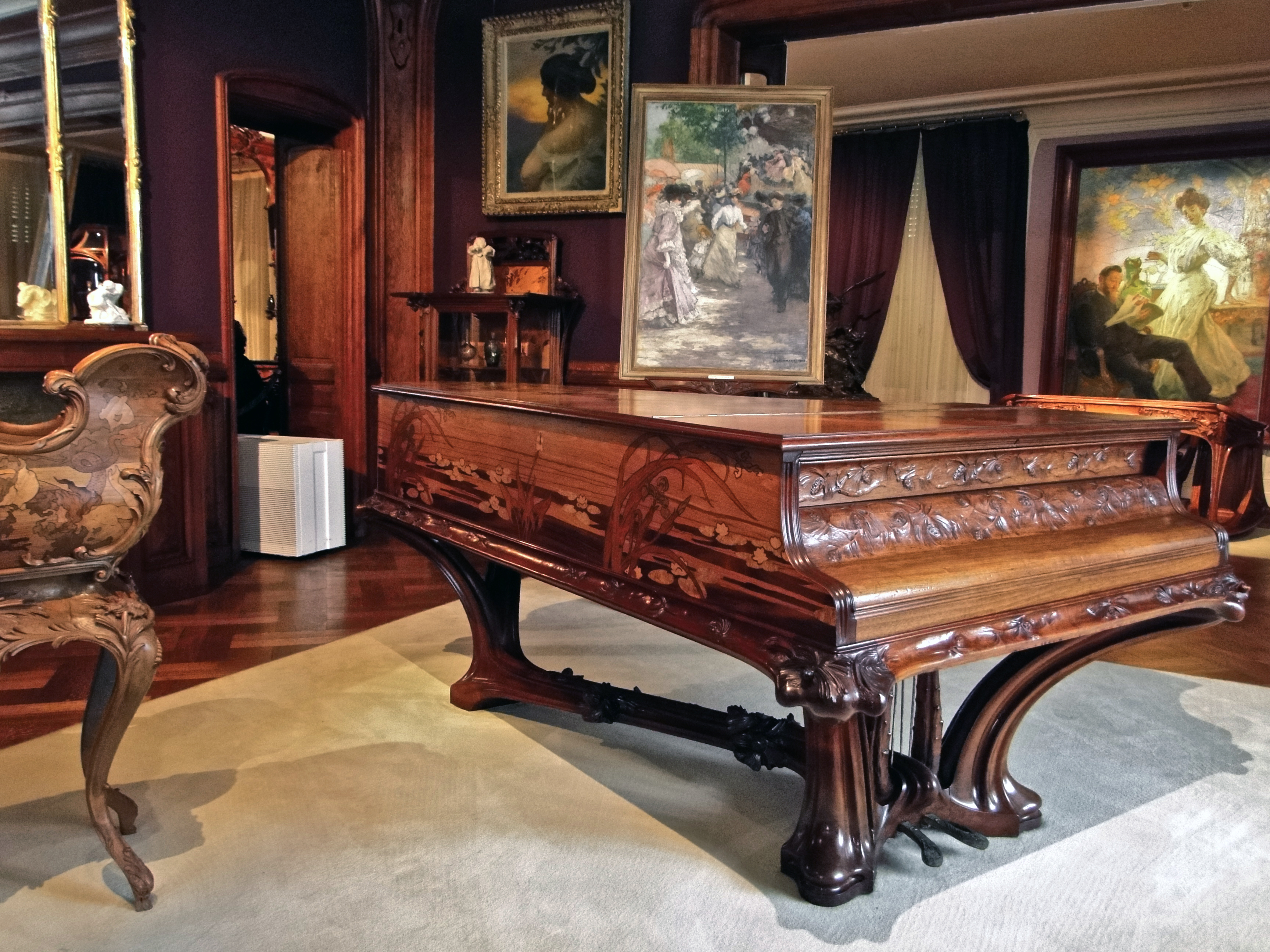 Grand piano by Louis Majorelle (1905). Decor fashioned after a drawing by Victor Prouvé. Made of carved mahogany and ash burl.